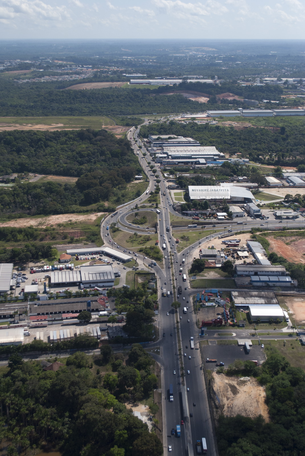 Crossing of Torquato Tapajós and Max Teixeira avenues in Manaus, capital of Amazonas State, Brazil.